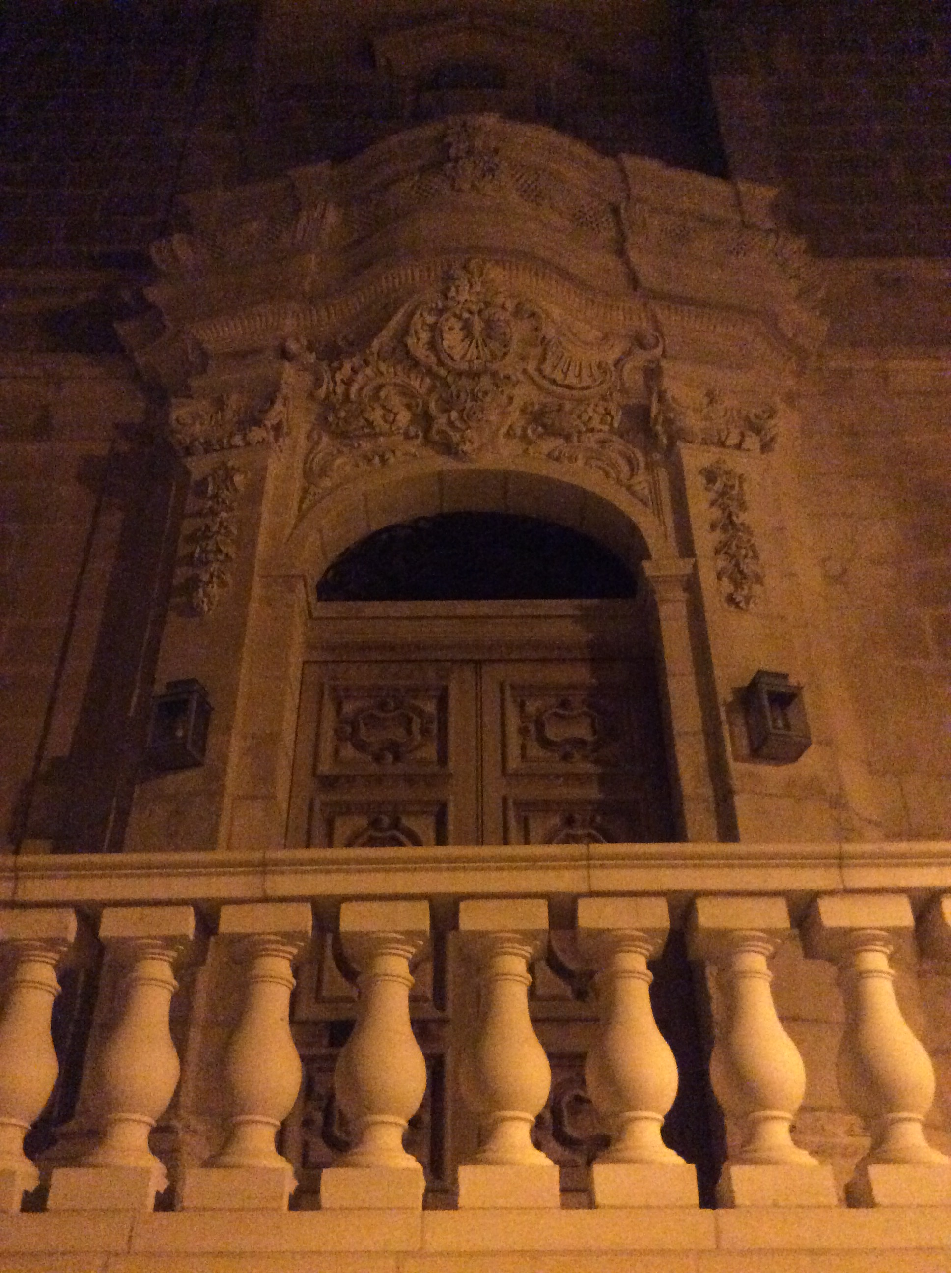 Palazzo Nasciaro Naxxar Malta close to Palazzo Parisio and Naxxar Parish Church. Former aristocratic family home, police headquarters during British period, WWII shelter for villigers, former primary school, now restored private residence.